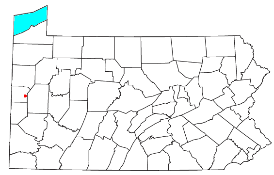 Locator map of the unincorporated community of Rose Point in Lawrence County, Pennsylvania, United States.